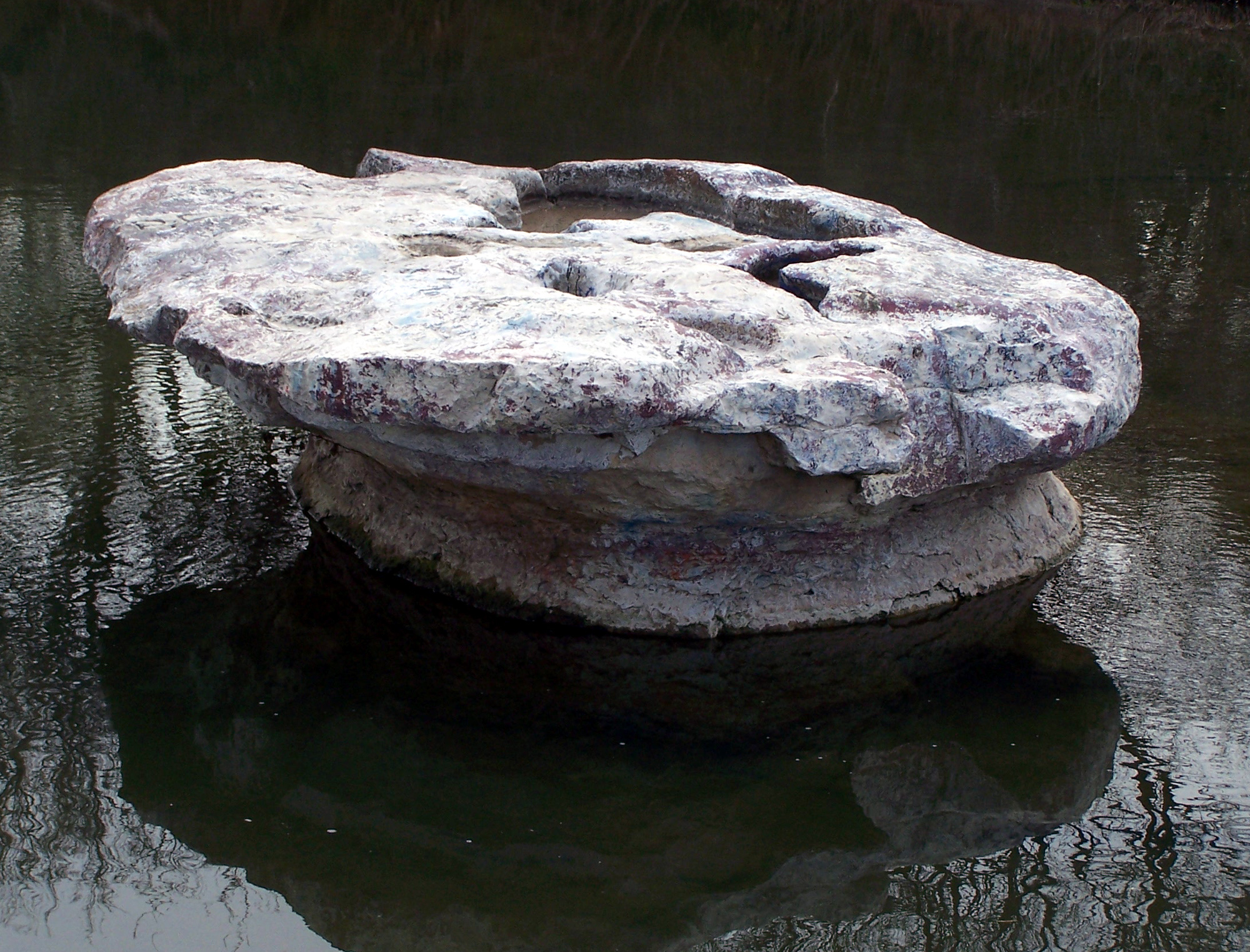 The Round Rock of Round Rock, Texas, United States.